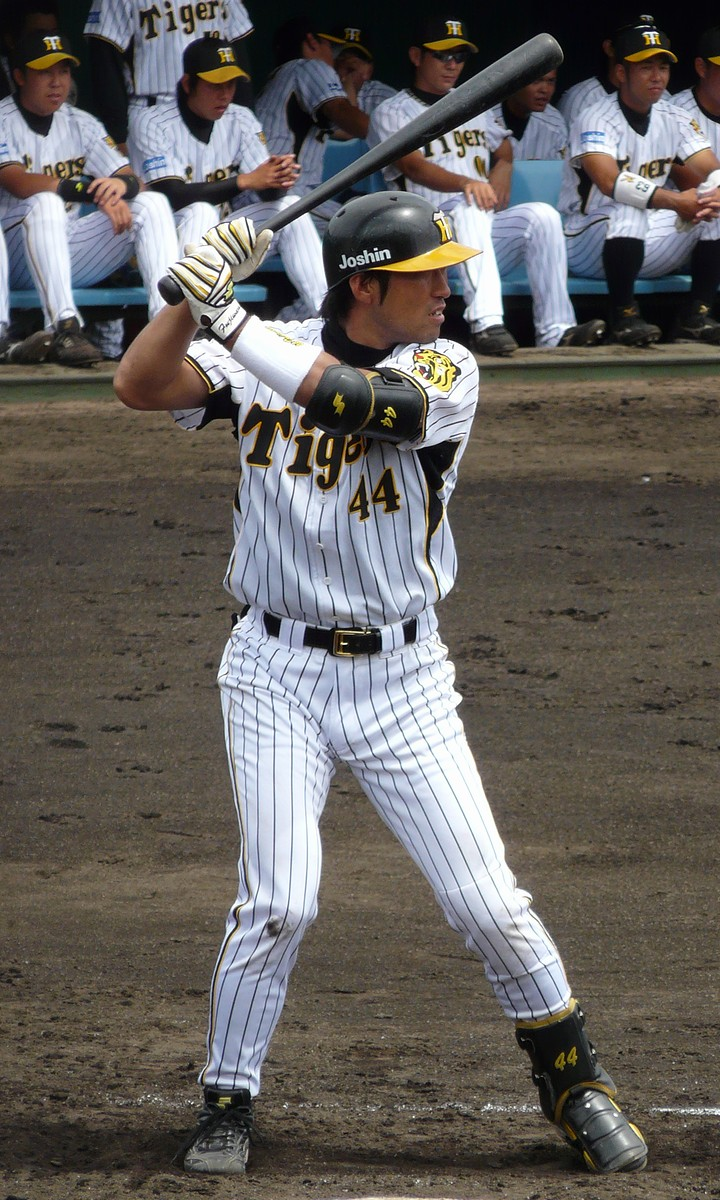 Hanshin Tigers/Toru Fujiwara